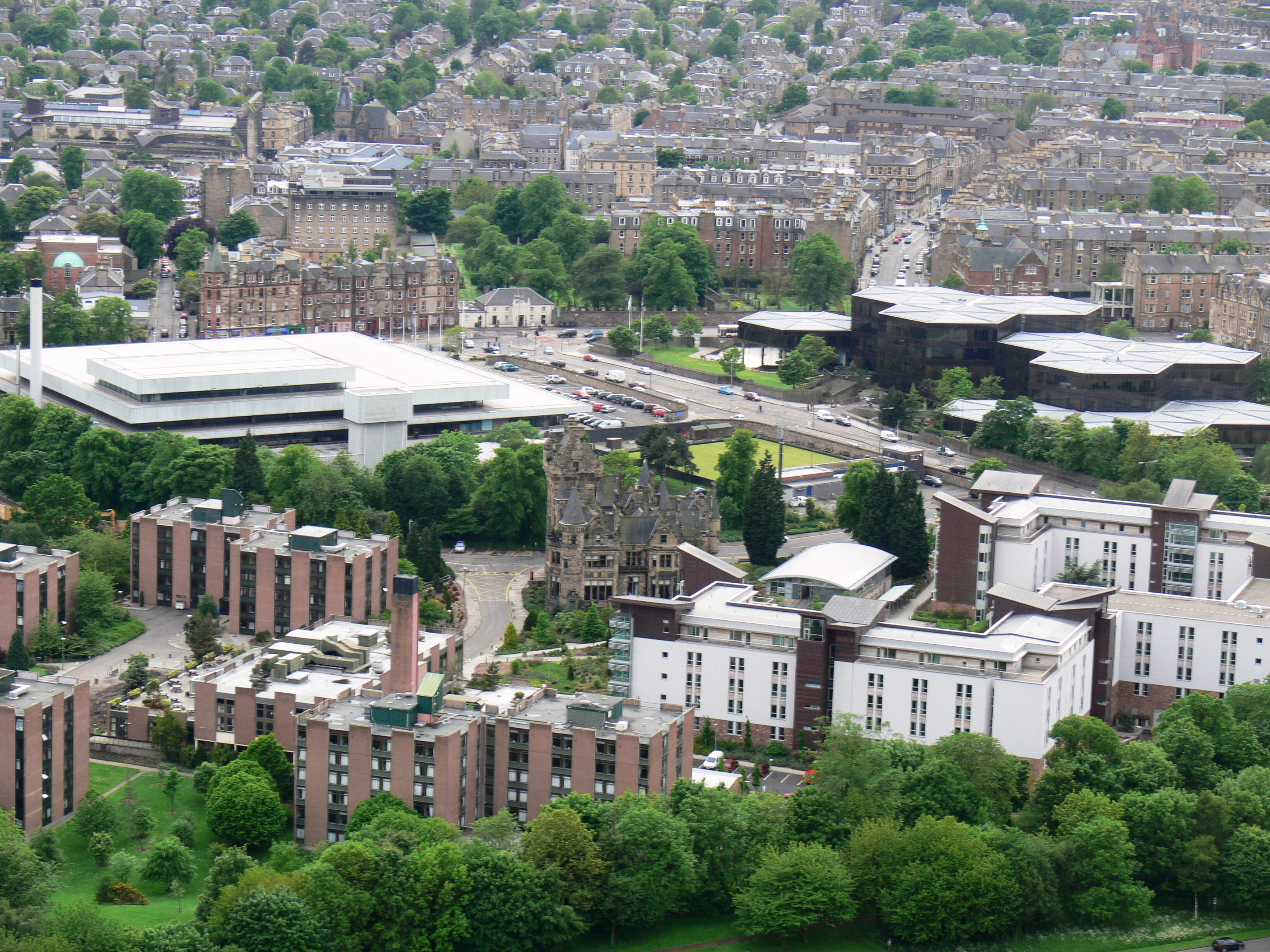 The Pollock Halls of Residence of the University of Edinburgh as seen from Arthur's Seat. The Halls include the buildings seen in the foreground. The building on the right is Chancellor's Court, and that o the extreme left is the John McIntyre Centre. The castle-like structure at the centre is St. Leonard's Hall. The large white building, upper left, is the Royal Commonwealth Pool (1970) and the large building with hexagonal shapes, upper right, an insurance company office.